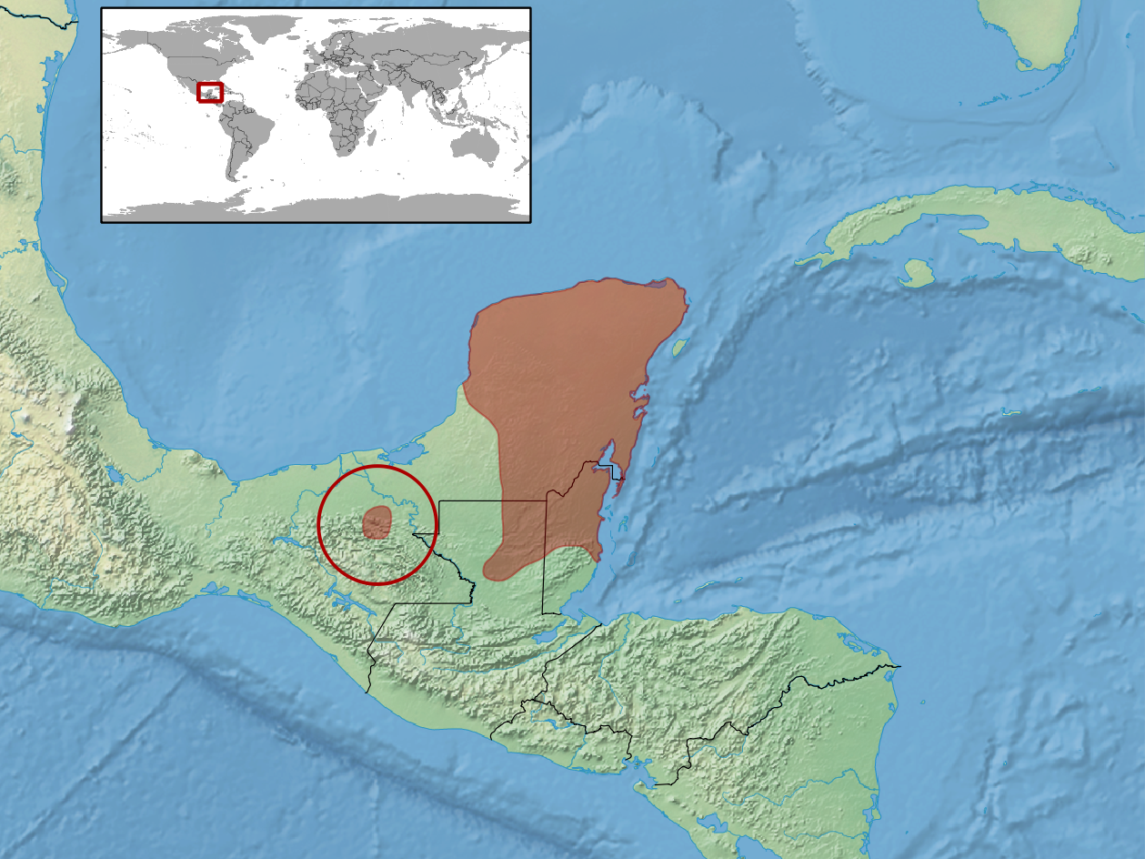 geographic distribution of Coniophanes schmidti (Native: Belize; Guatemala; Mexico)